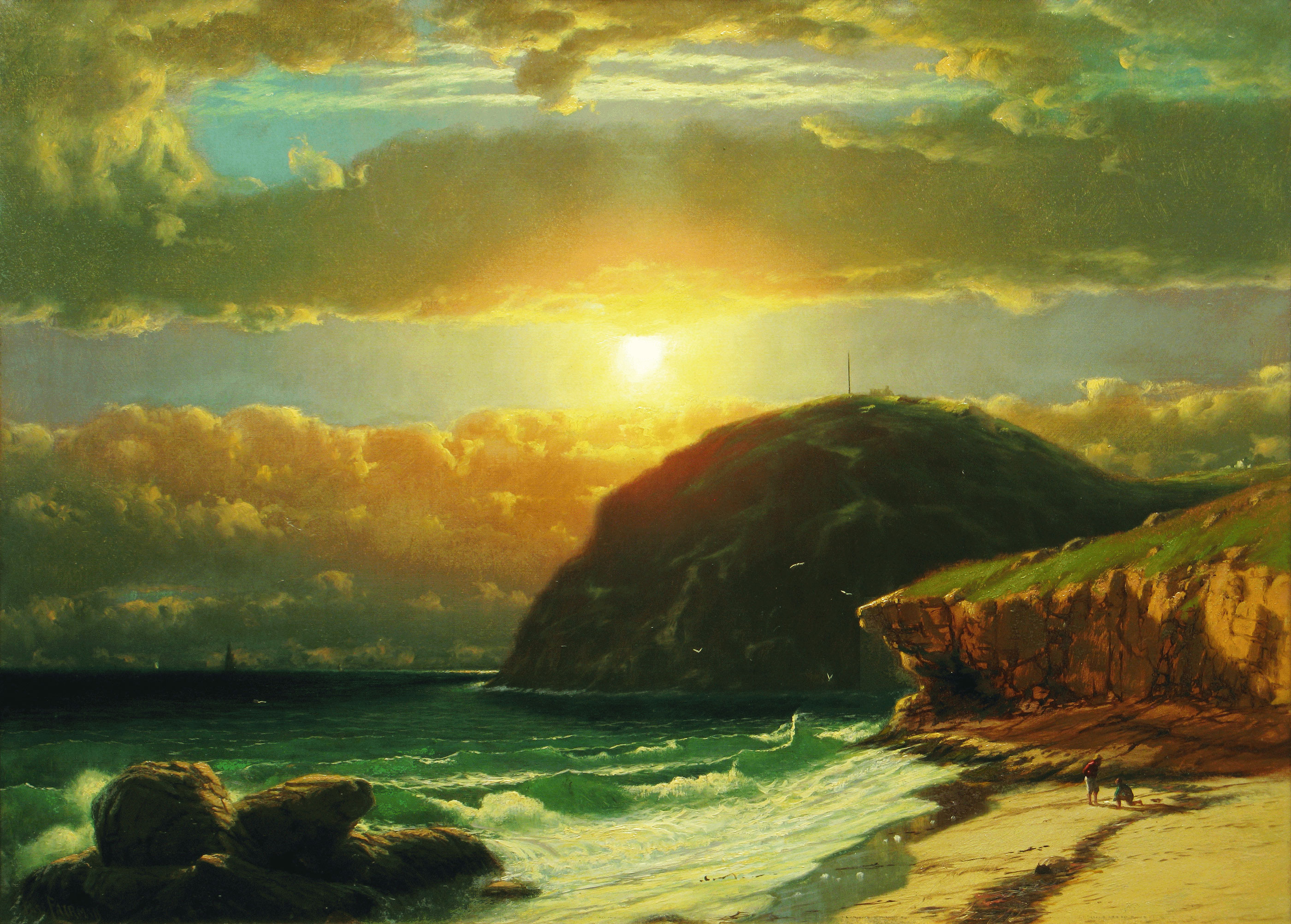 Eagle Cliff, Manchester-by-the-Sea, Massachusetts by James Fairman, oil on canvas, 26 x 36 inches